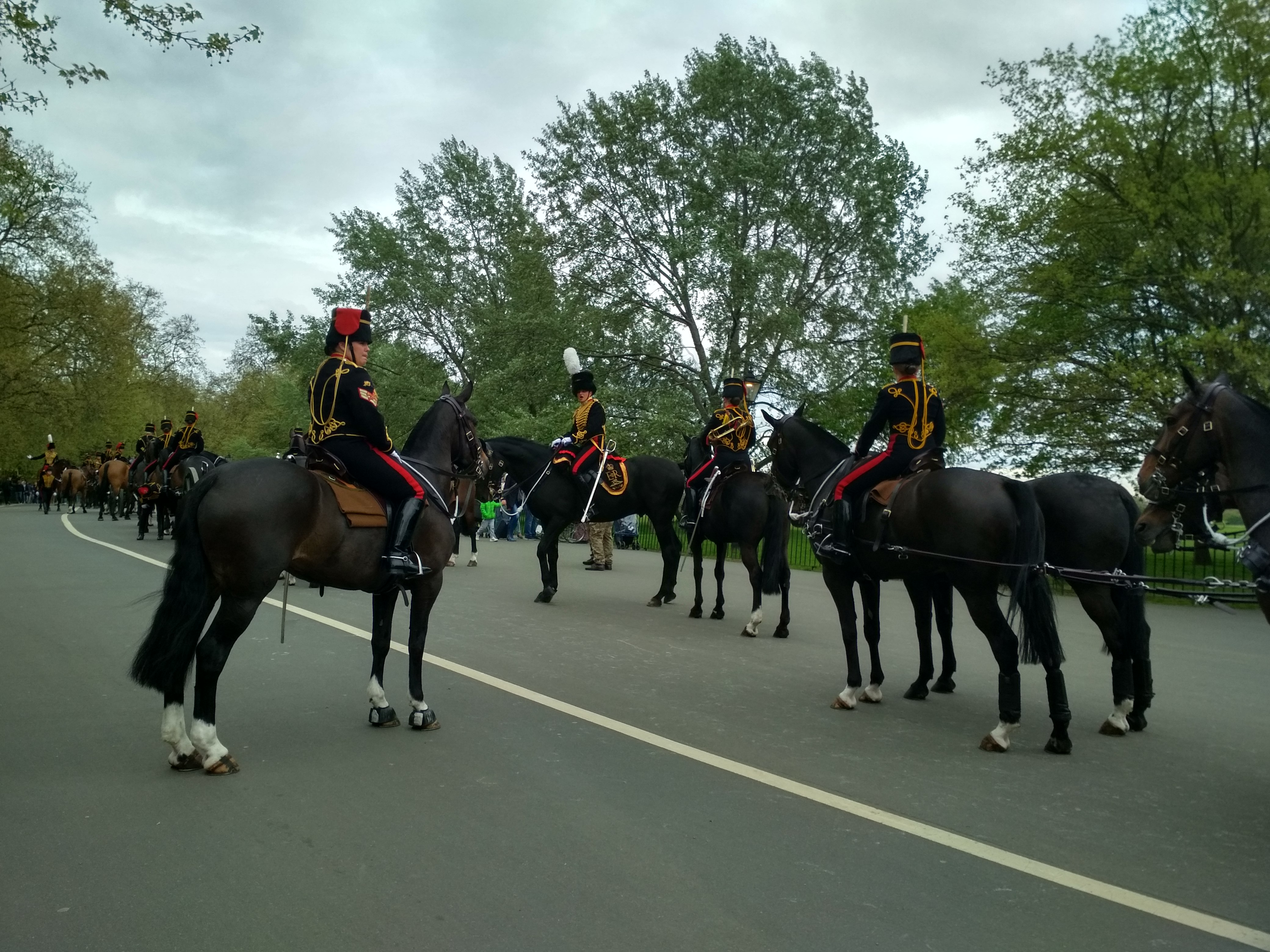 March after gun salute for the birth of Prince Louis of Cambridge in Hyde Park